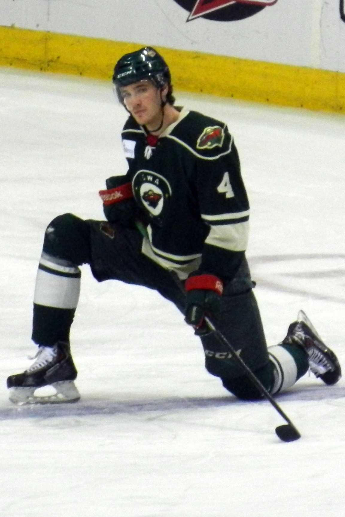 Tyler Graovac with the American Hockey League's Iowa Wild during pregame warmup